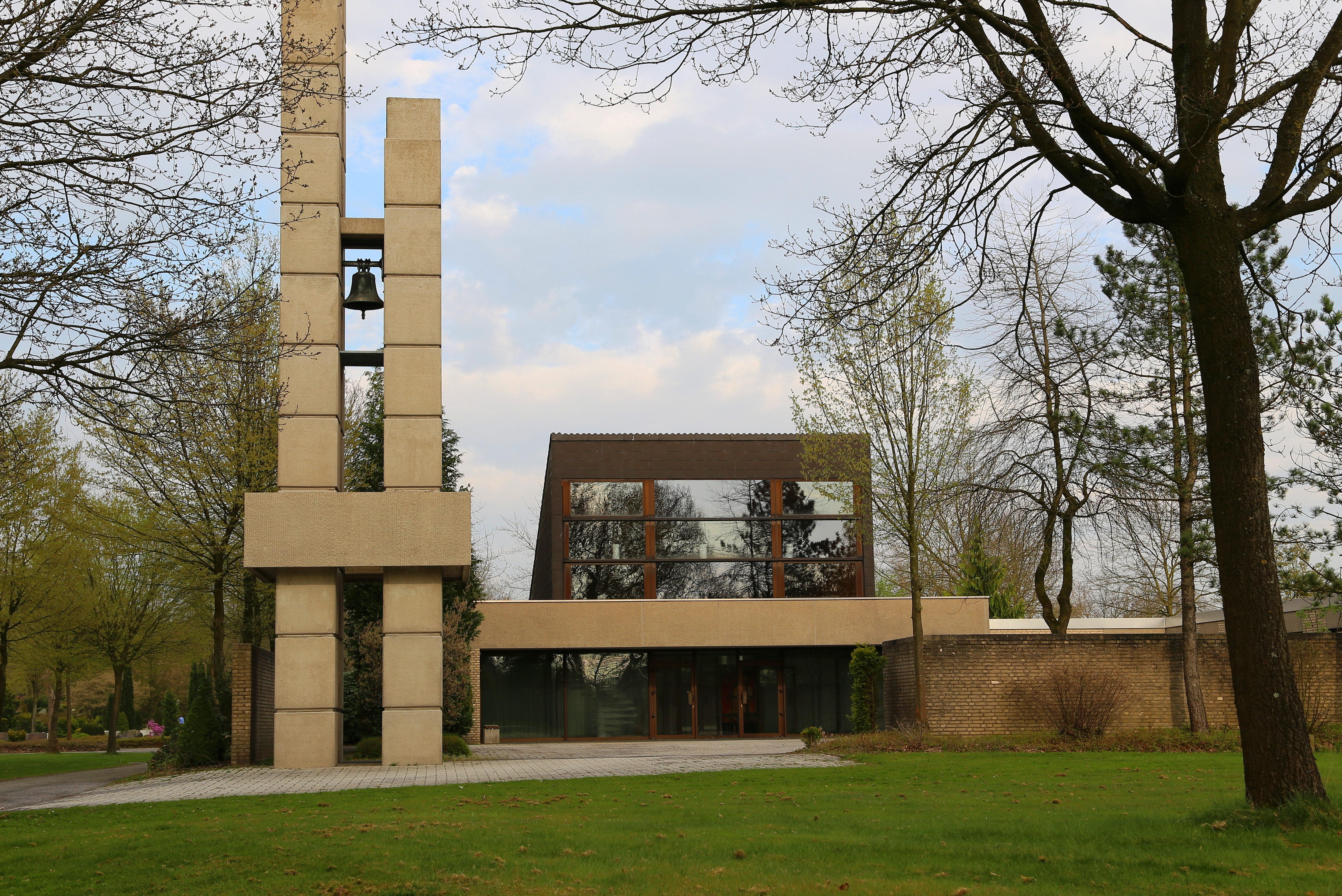 Cemetery Hall and bell tower of Ibbenbüren Main Cemetery (Hauptfriedhof Ibbenbüren) in Ibbenbüren, Kreis Steinfurt, North Rhine-Westphalia, Germany.